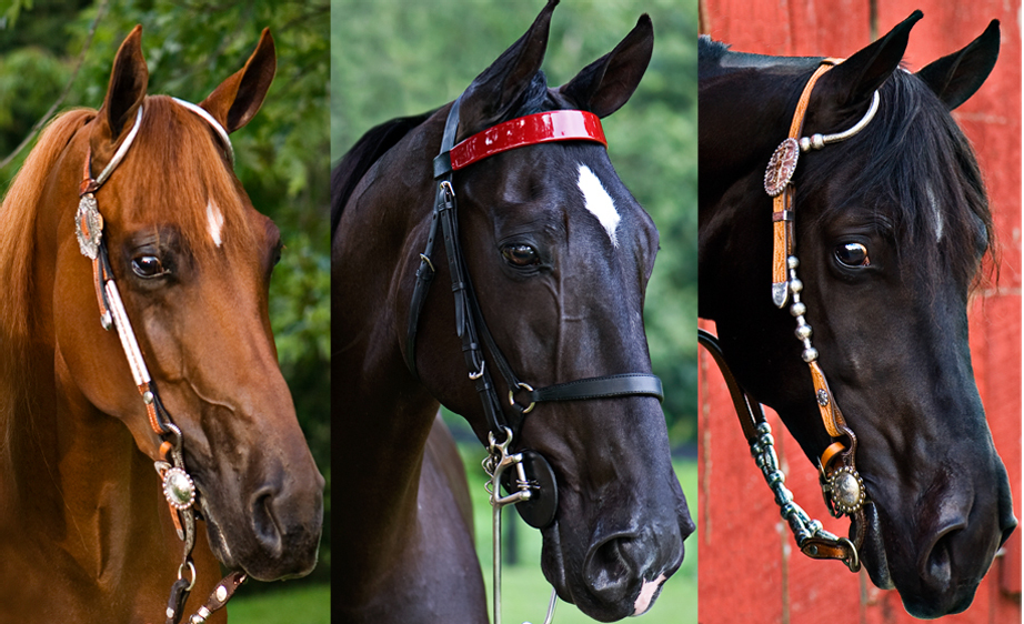 Three Tennessee Walking Horses